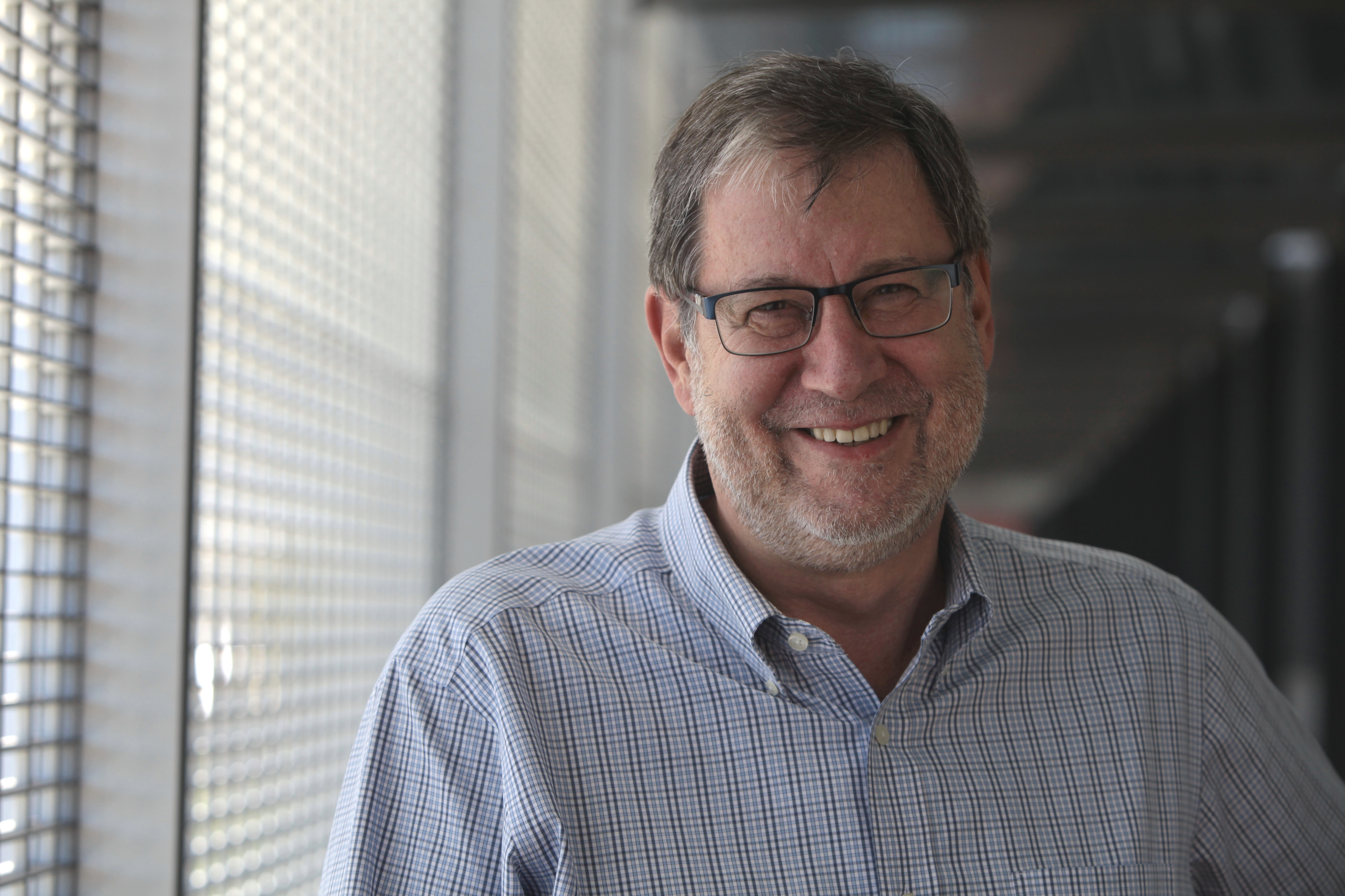 Profile photo of Professor John Mattick AO FAA, Executive Director of the Garvan Institute of Medical Research in Sydney, Australia